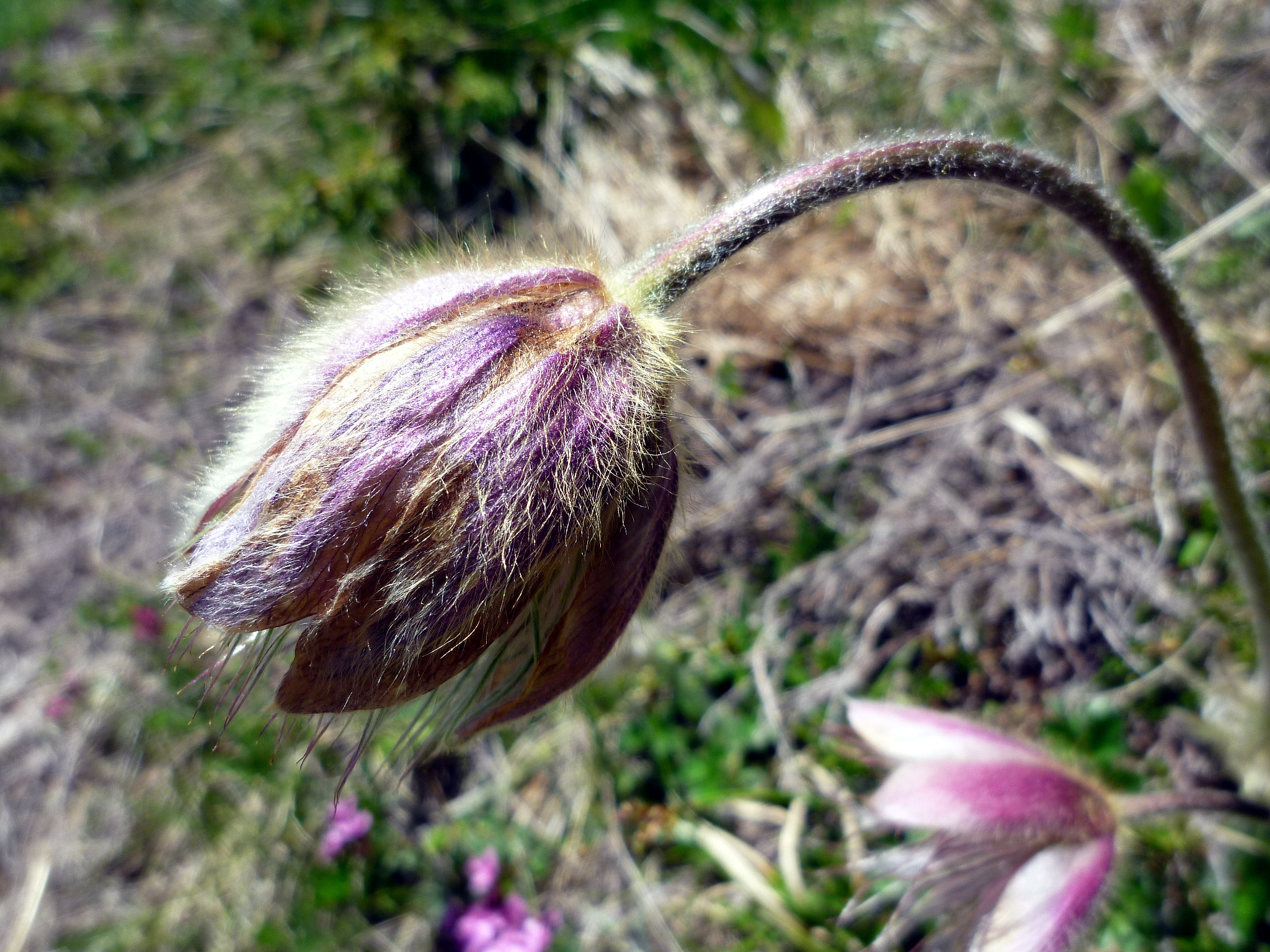 Anemone vernalis. Near the Estany Fosser (Pallars Jussà - Catalunya. To 2.240 m altitude